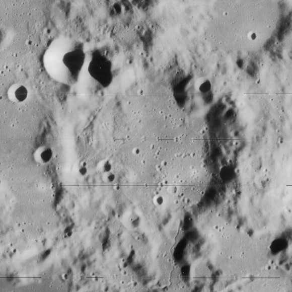 Lehmann crater, on the moon.